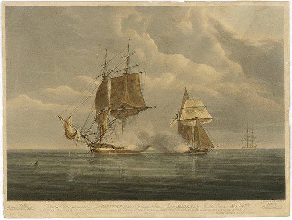 Huggins, William John (artist & publisher); Duncan, Edward (engraver) Date: 1831 Medium: aquatint Size: 350 mm x 465 mm